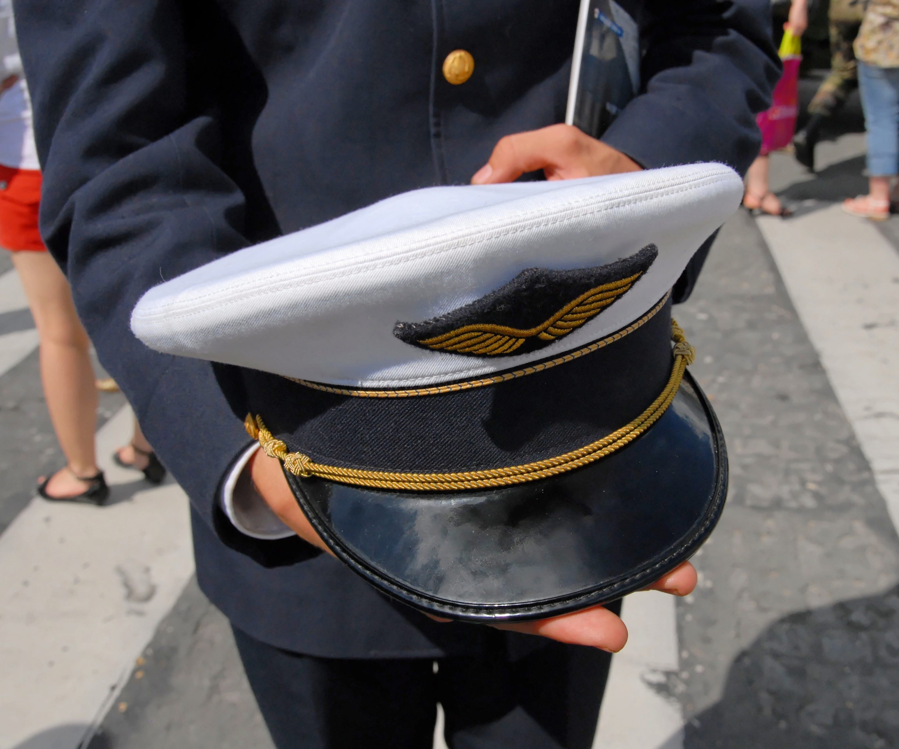 French cadet of the École de l'air holding the cap, part of his dress uniform.